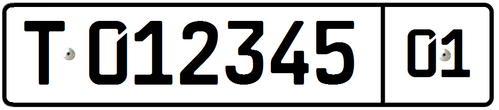 Temporary License plate in Uzbekistan